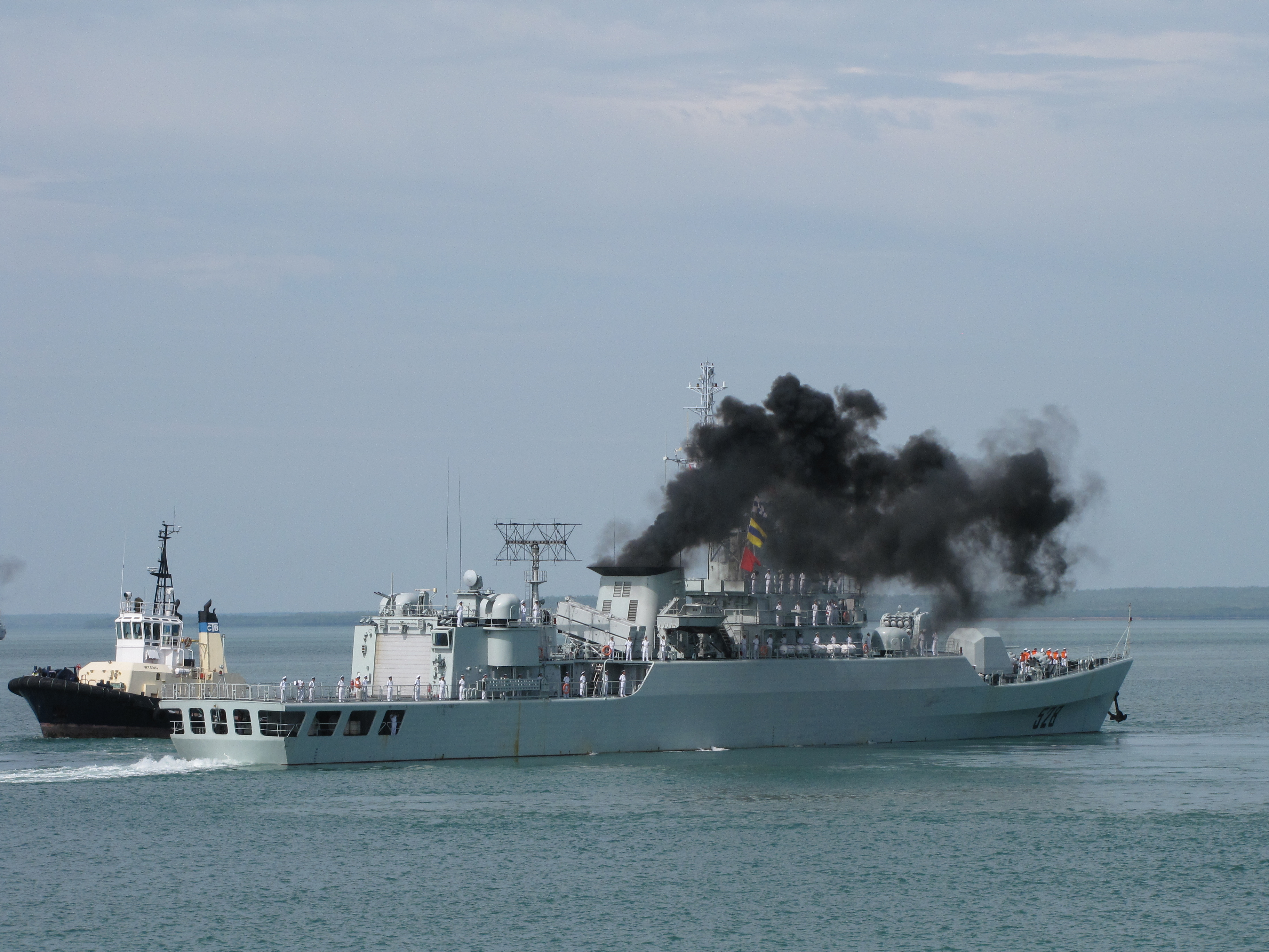 Chinese Navy Frigate Mianyang gets underway after being pulled away from Fort Hill Wharf by a pair of local tugs Wyong and Marrakai. The Mianyang was on a four day visit to Darwin following joint naval exercises off the East coast of Australia.